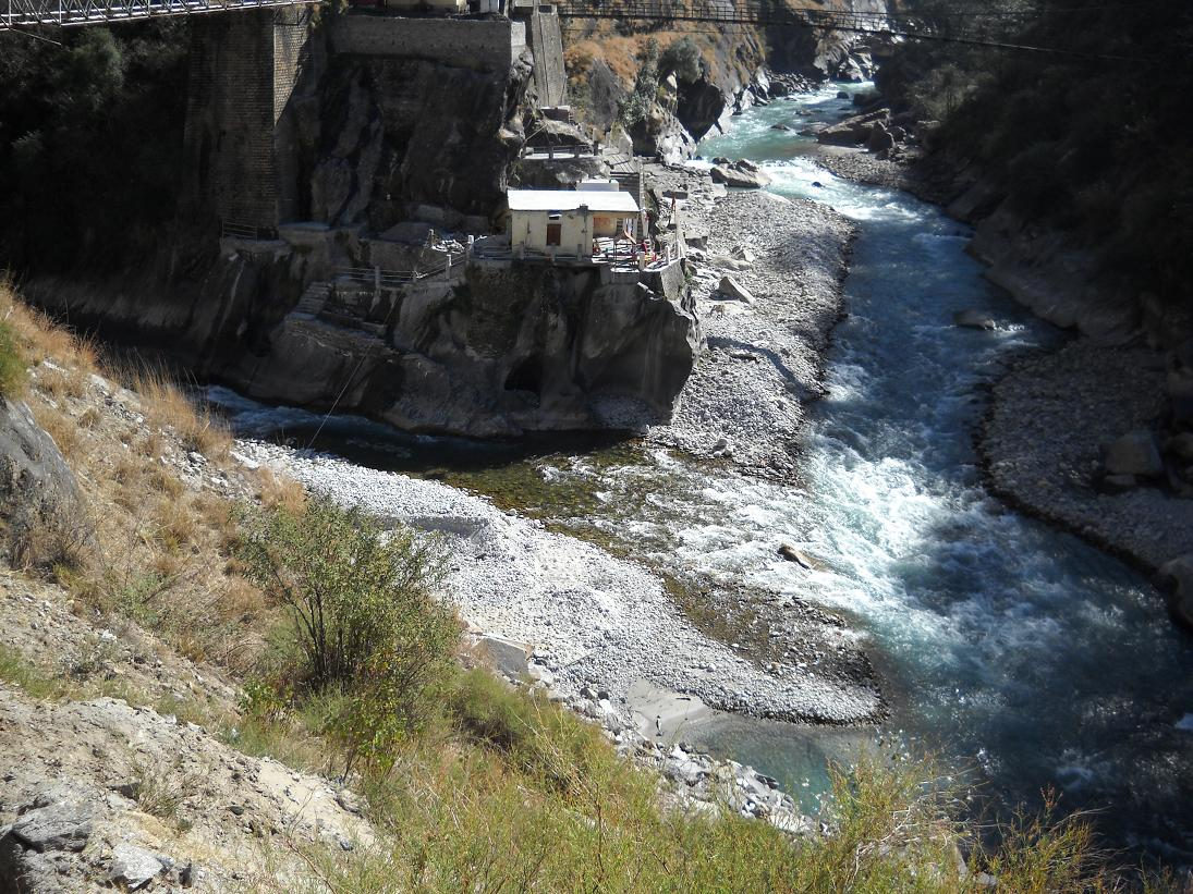 Confluence of the Dhauliganga (right) and Vishnuganga (or Saraswati) (left), forming the river Alaknanda at Vishnuprayag in the outer Garhwal Himalayas, India.